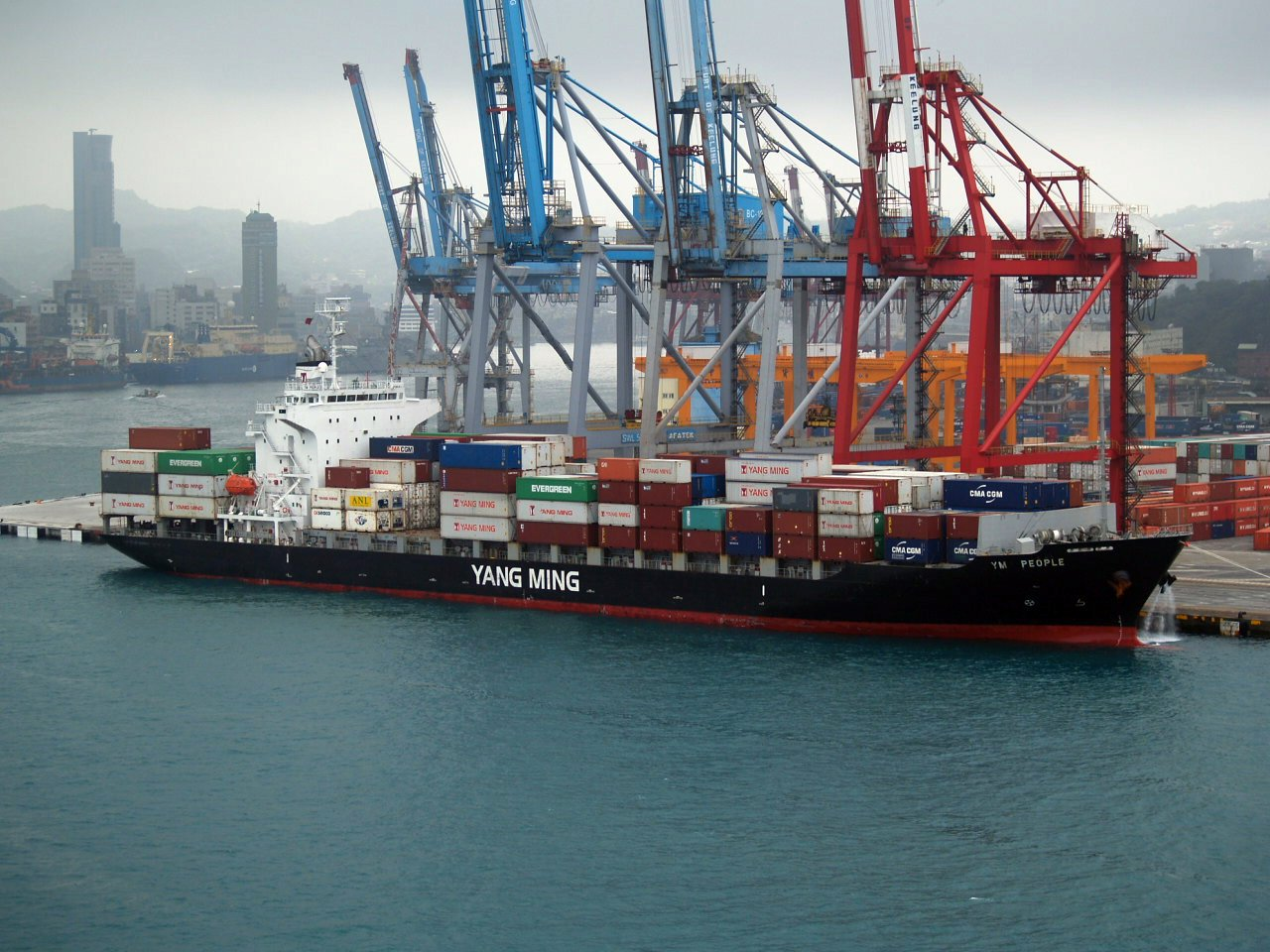 IMO number : 9266126 Name of ship : YM PEOPLE Call Sign : 3EZE3 Gross tonnage : 17153 Type of ship : Container Ship Year of build : 2003 Flag : Panama Status of ship : In Service